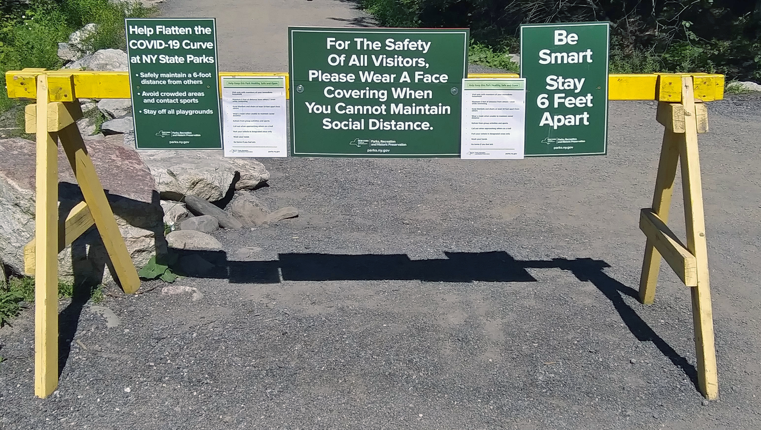 Sawhorse with signs reminding visitors of COVID-19-related restrictions at the trailhead to Awosting Falls at Minnewaska State Park Preserve on New York's Shawangunk Ridge